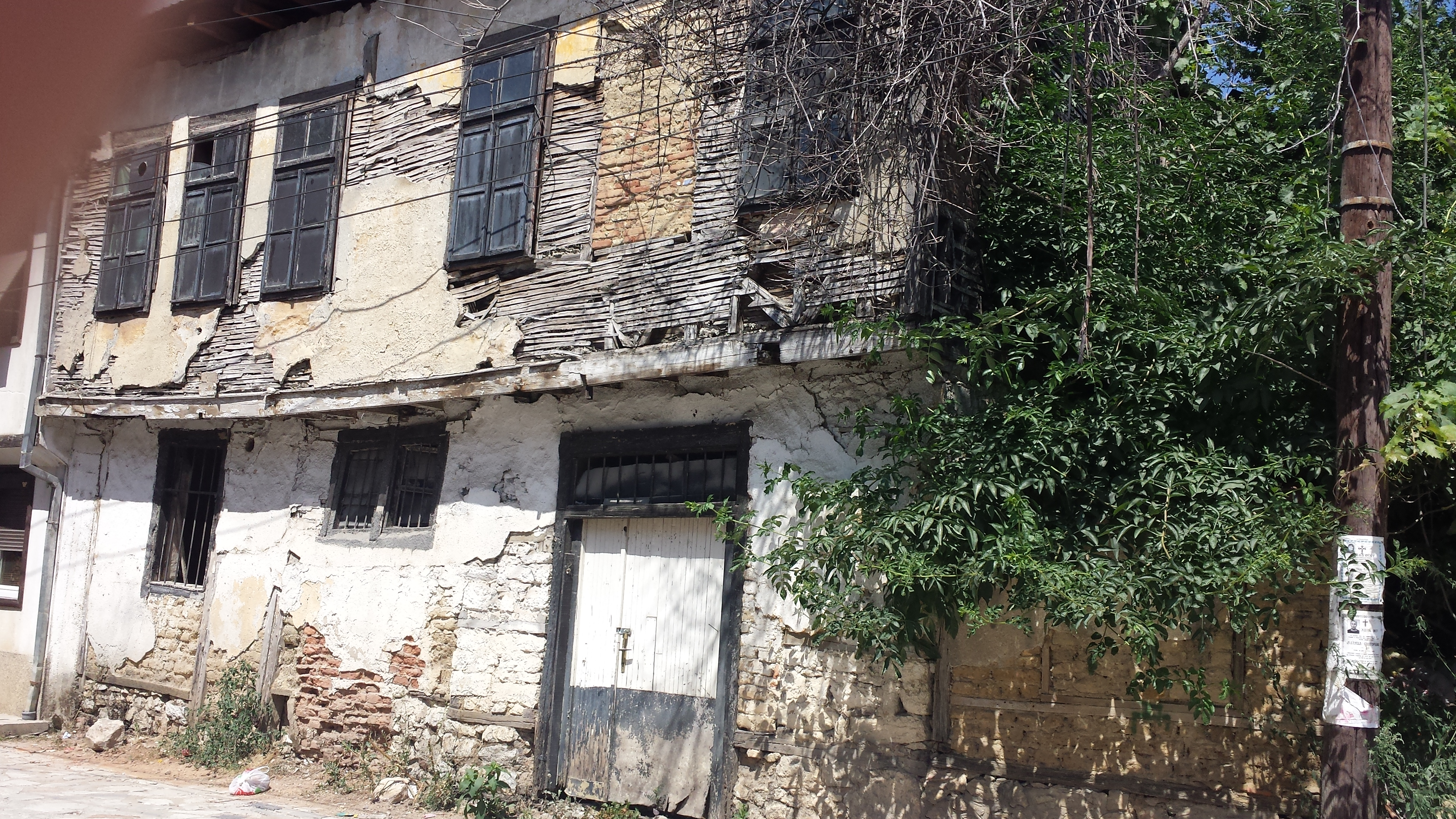 Ruined monument in Struga